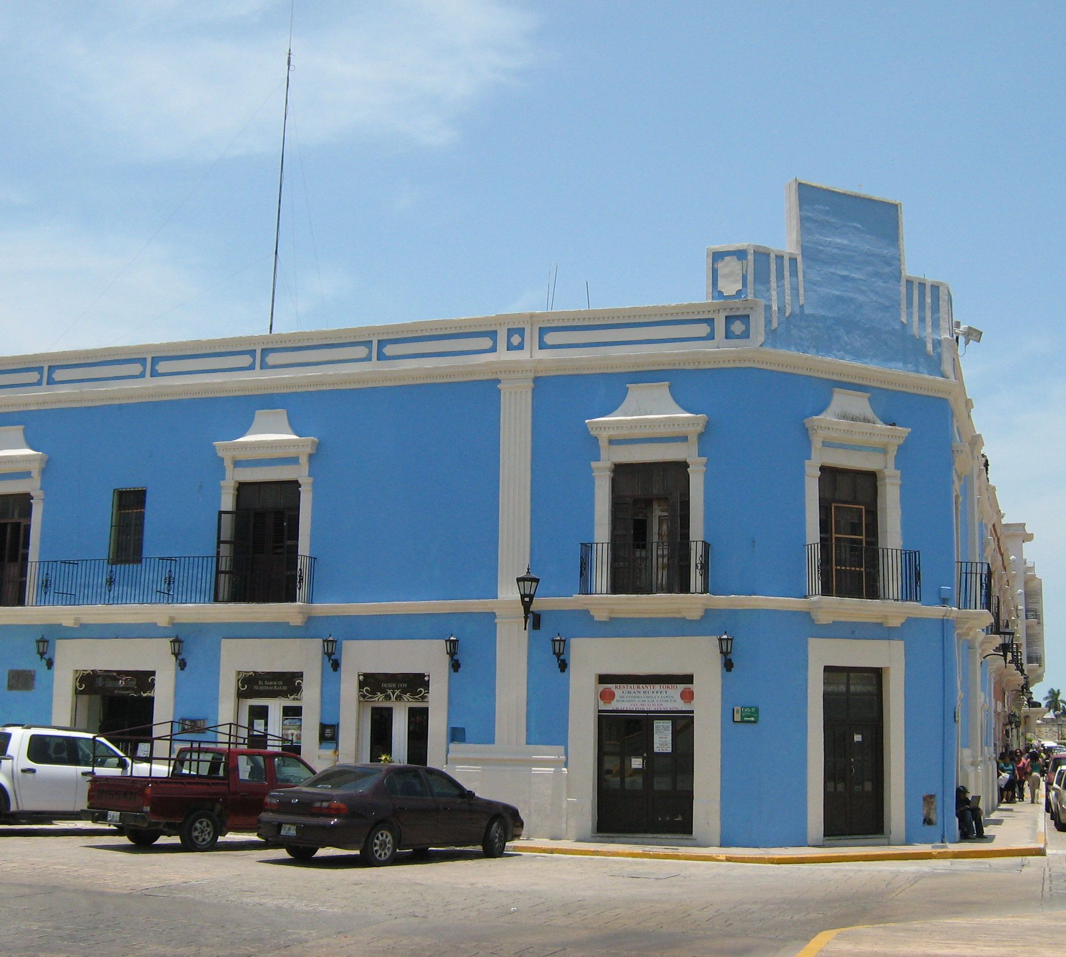 Author/poet Justo Sierra Mendez (1848–1912) was born in this house — city of Campeche, Campeche state, southeastern México. Houses in UNESCO Historic Center of San Francisco de Campeche district.